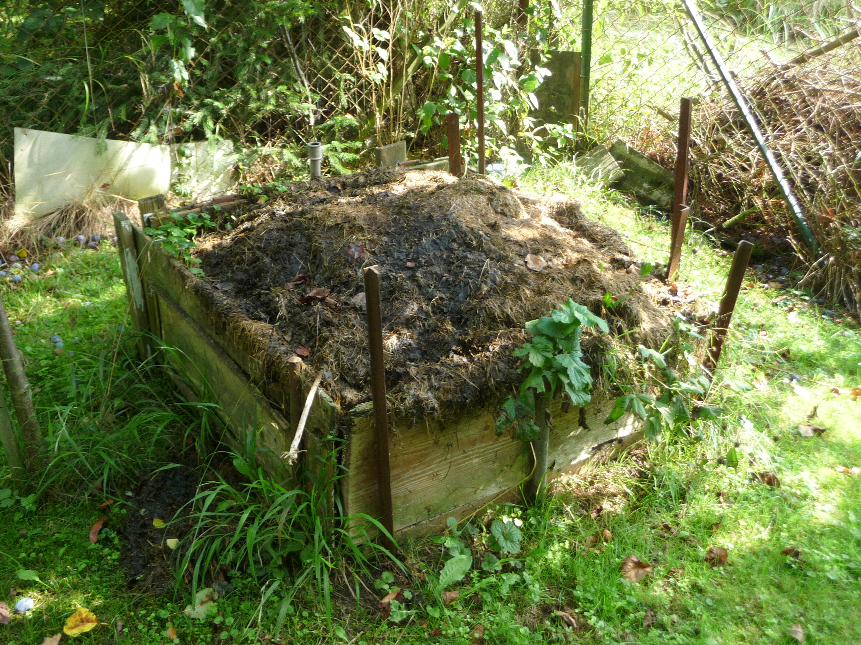 Compost bin